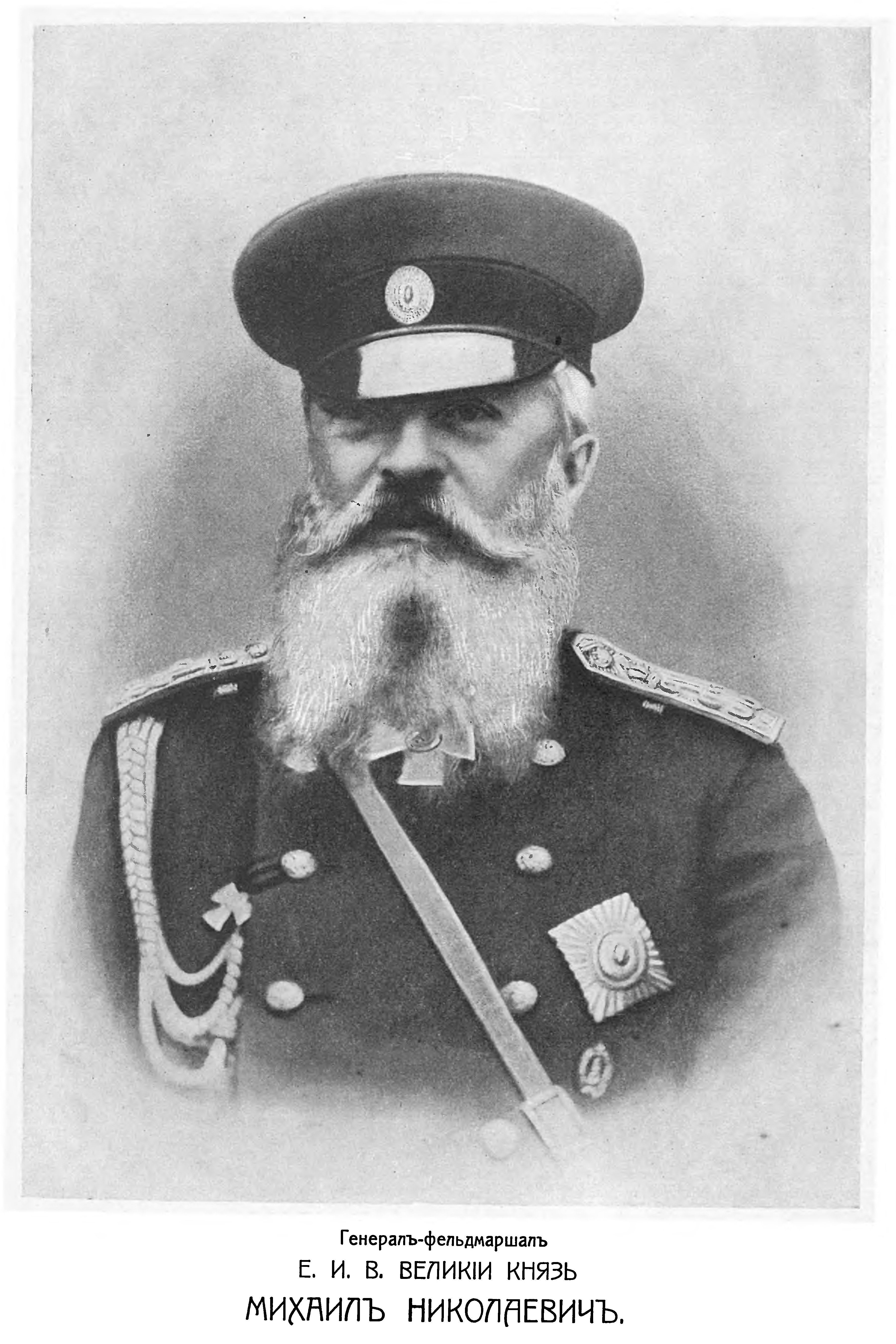 Michael Nikolaievich of Russia. Military Encyclopedia. Vol. 16 (Saint-Petersburg; 1914).